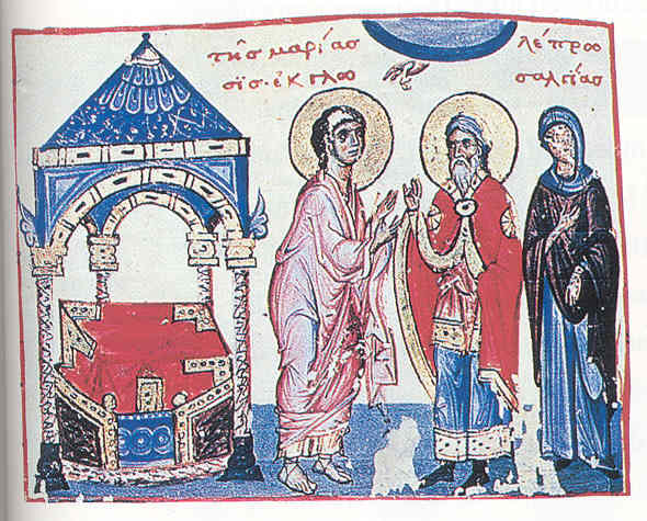 Moses, confronted about his Cushite wife